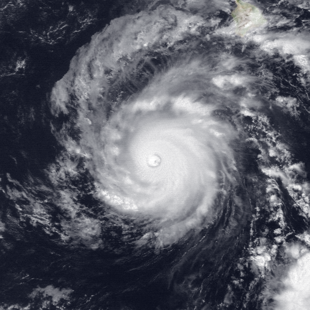 Hurricane John as a powerful Category 5 hurricane southwest of the Hawaiian Islands on August 23, 1994